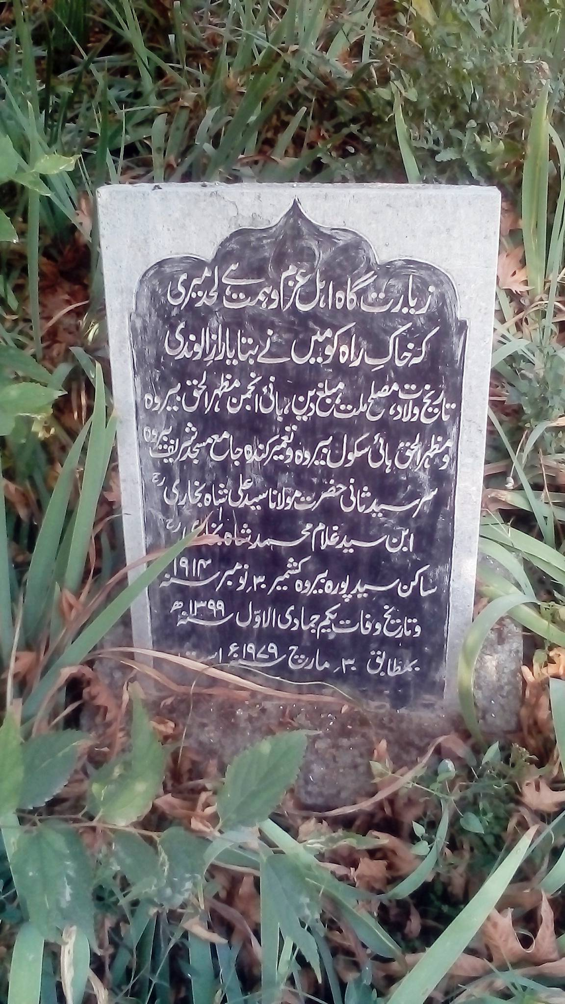 Sir Syed Sani Syed Ali Shah Bukhari born Syed Ali Shah Bukhari (30 November 1914– 30 March 1979).